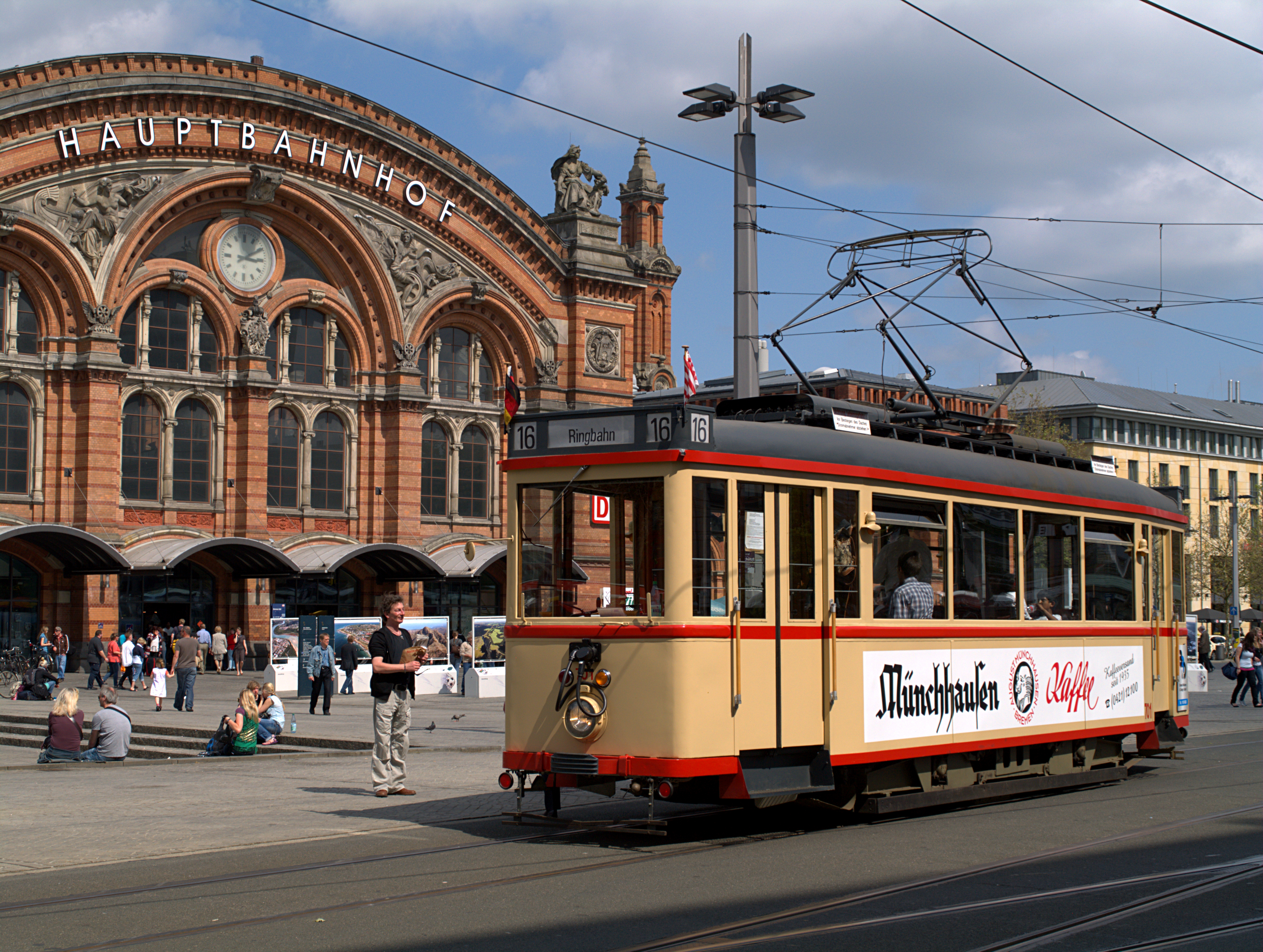 Car #701, a historical car (Type T2c, built in 1947) of the Bremen Transport Corporation, on sight-seeing tour (special route 16) in front of Bremen Central Station.